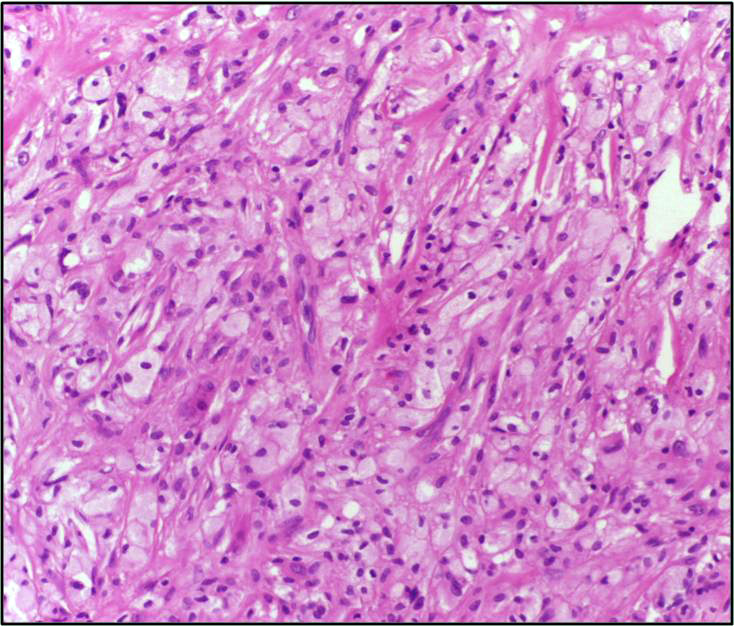 XANTHOMA: Clusters of macrophages with foamy cytoplasm due to intracellular accumulation of cholesterol in between connective tissue stroma [H&E stain 10X]